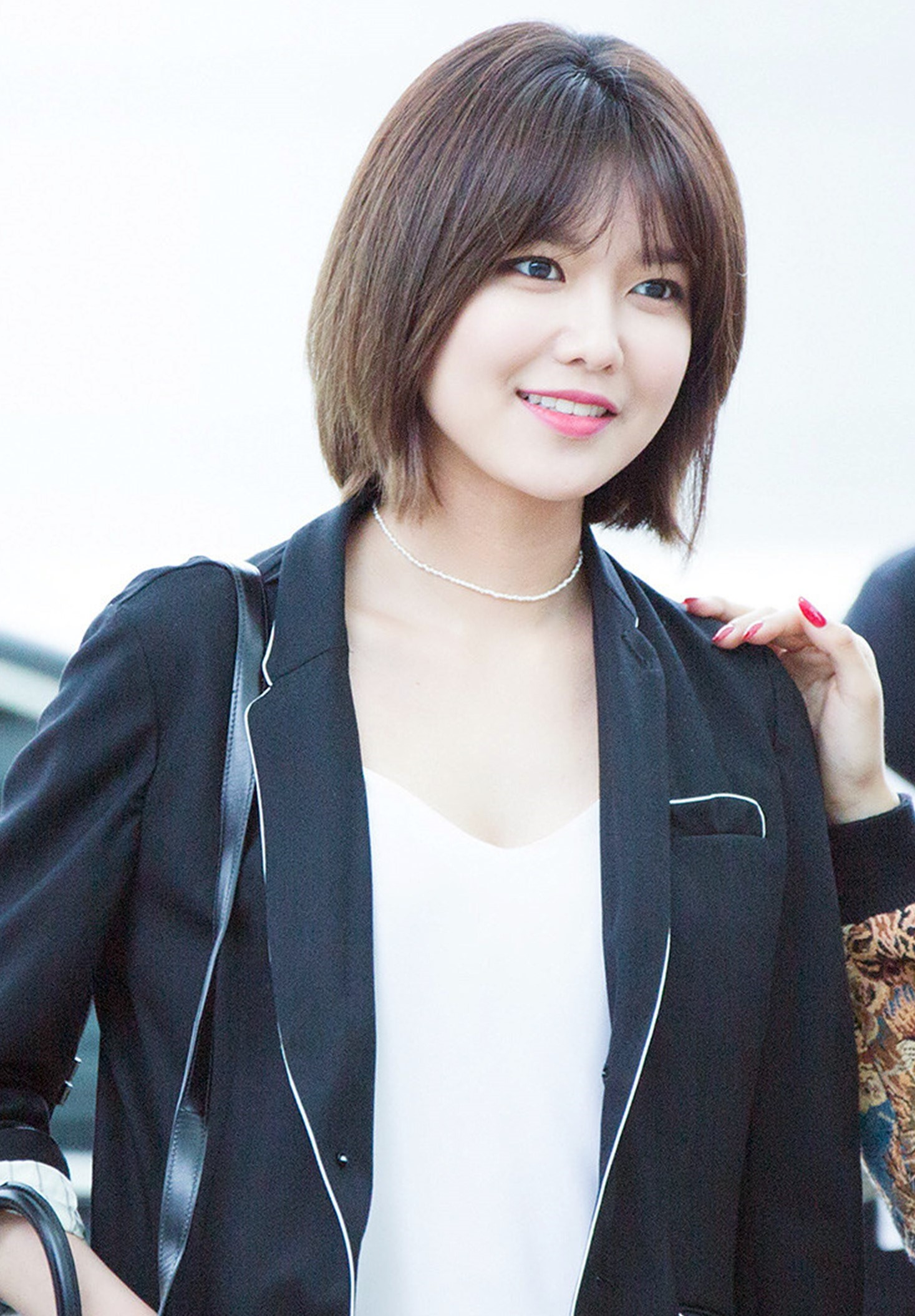 Sooyoung at Incheon International Airport on May 6, 2016.